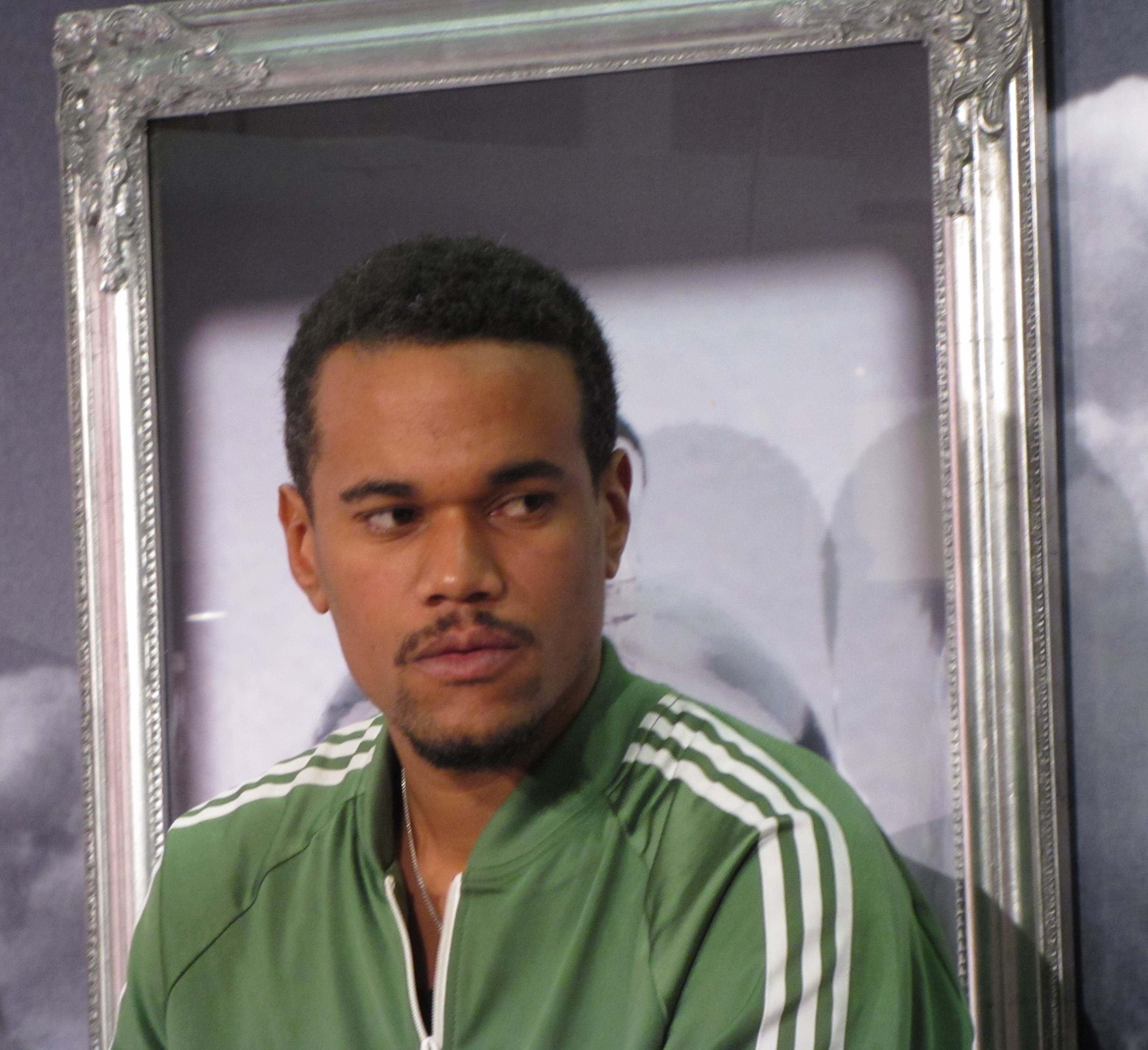 Swedish poet Johannes Anyuru at the 2010 Göteborg Book Fair.